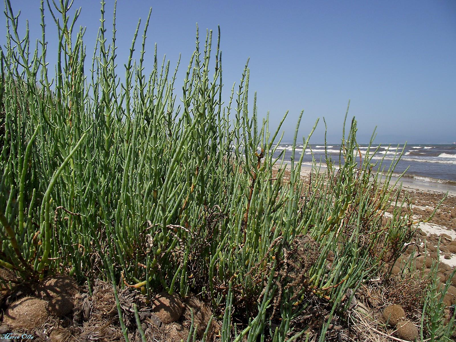 Salicornia europaea